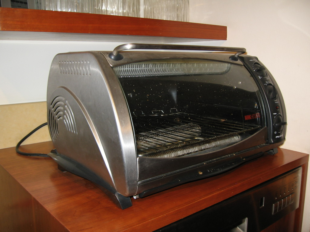 toaster oven